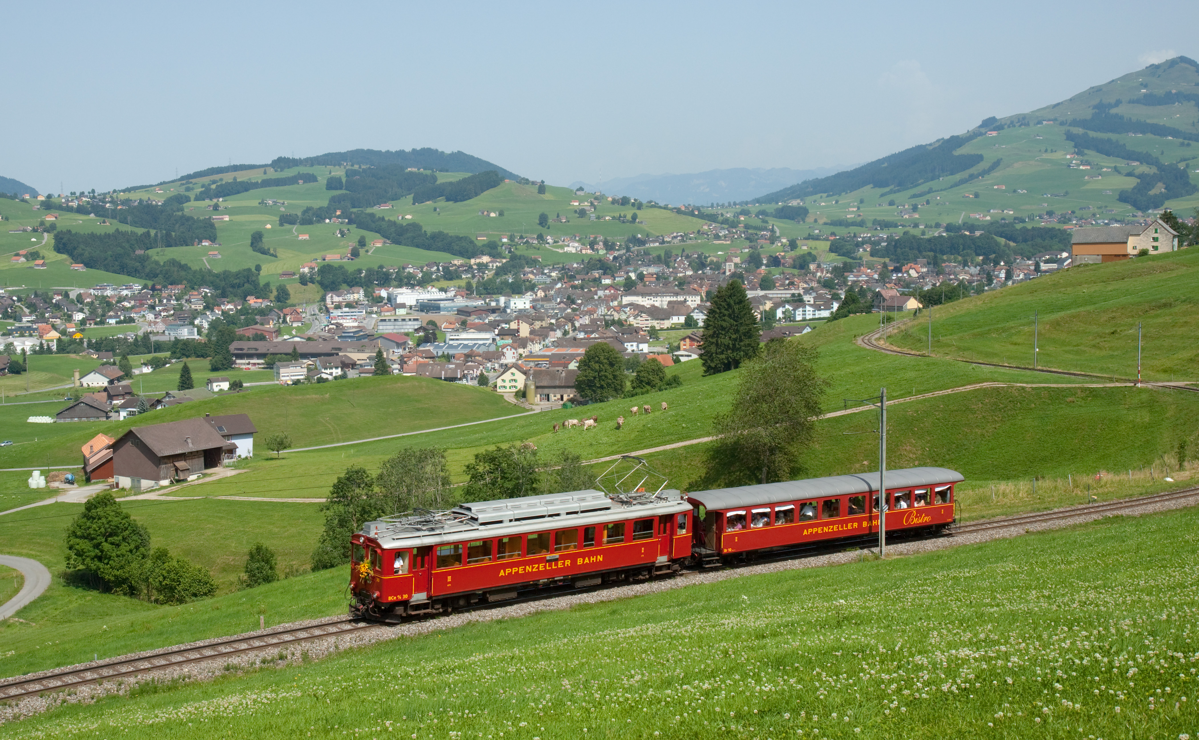 Historic Appenzeller Bahnen motor coach BCe 4/4 30 with buffet car Br 10 on the line from Appenzell to Herisau. The town in the background is Appenzell.